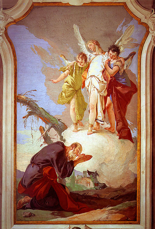 A depiction of Abraham, the leading patriach in the Old Testament. God reveals himself to Abraham in scripture and he is seen here with three angels.